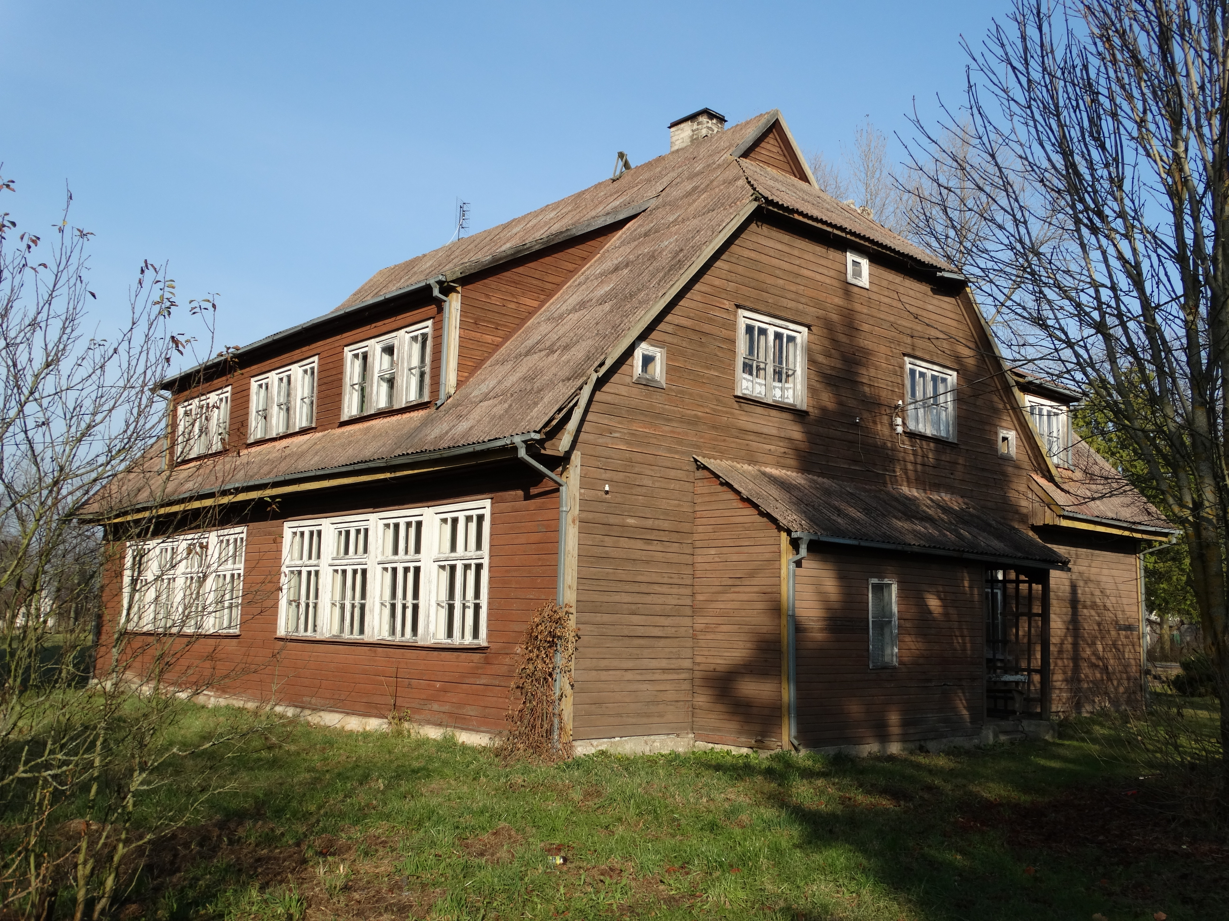 Former school, Porijai, Pasvalys district, Lithuania